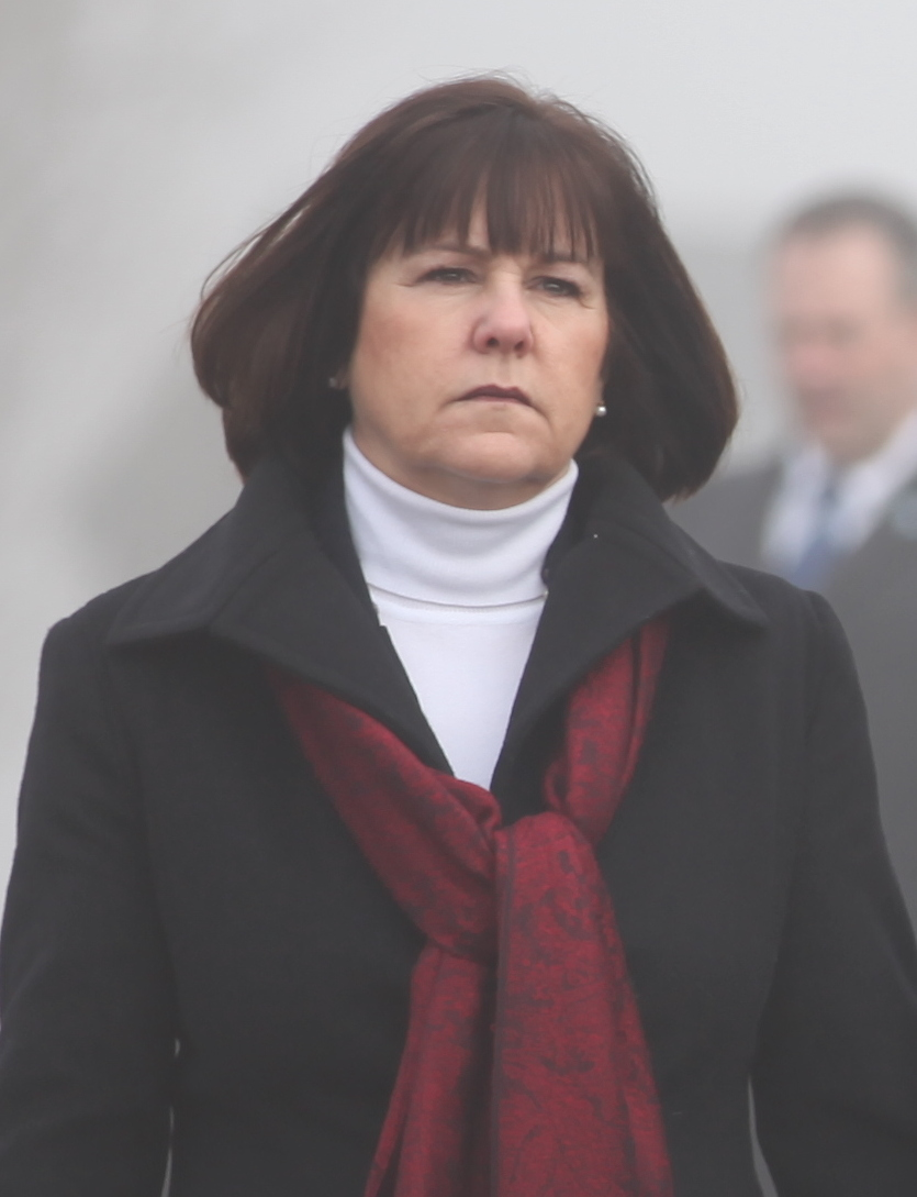 US Vice President Mike Pence, and Second Lady Karen Pence, tours Dachau Concentration Camp Memorial in Germany on February 19, 2017.